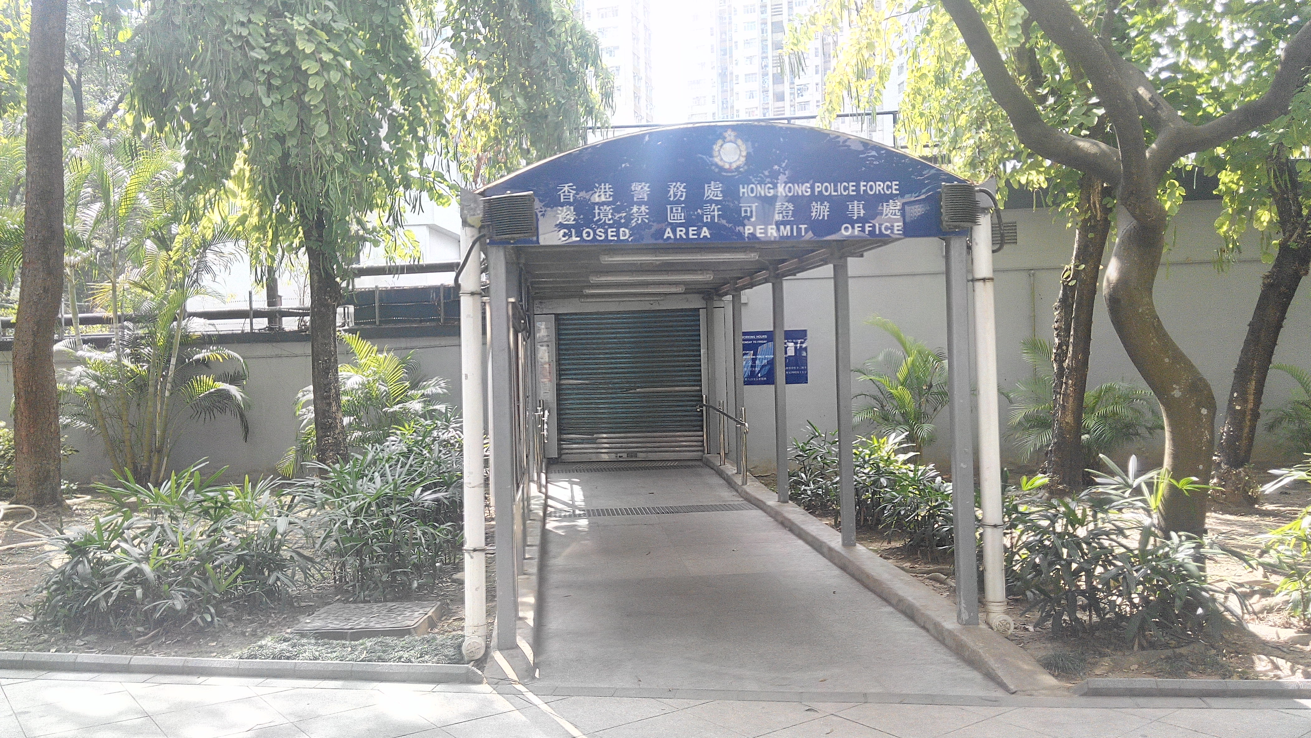 Closed Area Permit Office, Sheung Shui Police Station